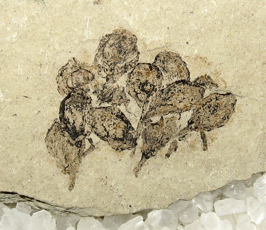 A 2.5cm group of Eucommia montana seeds, 48.5 million years old, Klondike Mountain Formation. Stonerose Interpretive Center Collections # SR 95-05-05